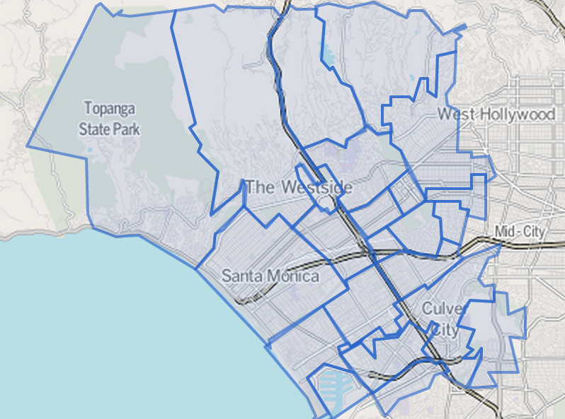 Map of the Westside area of Los Angeles County, Califorrnia, to be used in Westside (Los Angeles County)